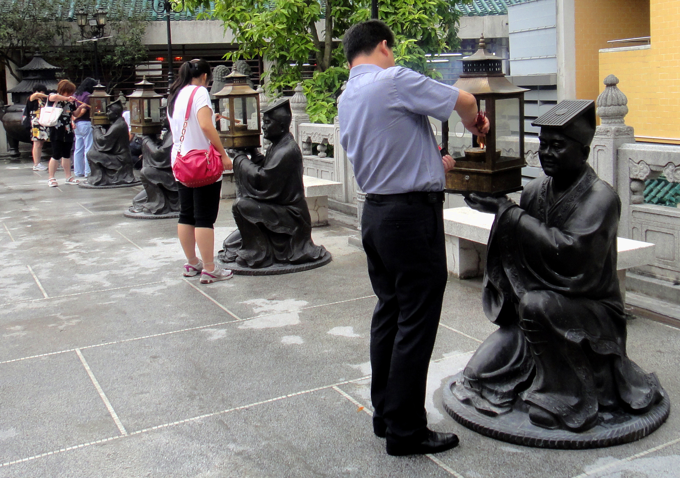 Lighting incense sticks and lamp holding statues in Wong Tai Sin Temple, Kowloon, Hong Kong